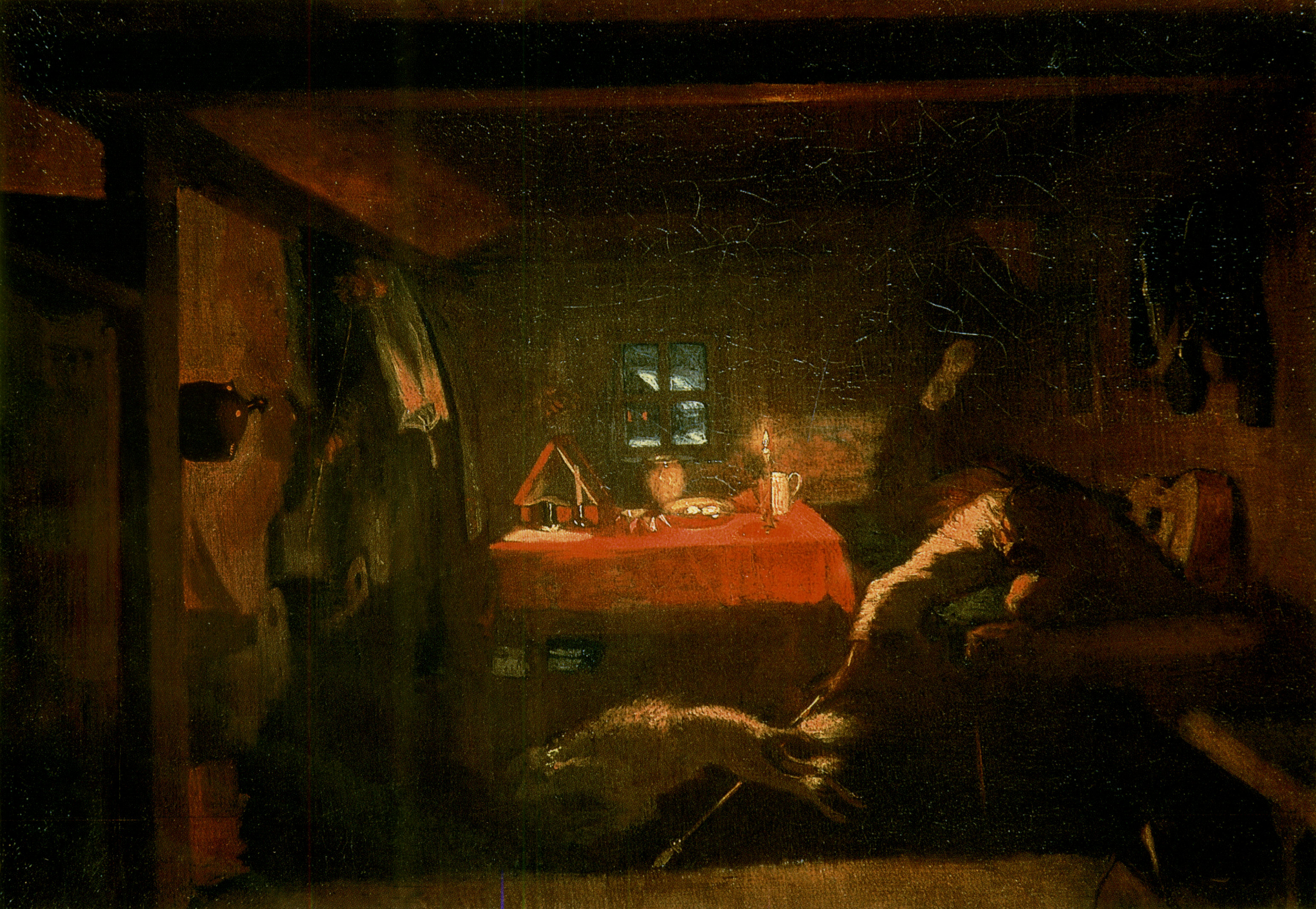 Encore, again Encore!" by Pavel Fedotow, Tretyakov Gallery